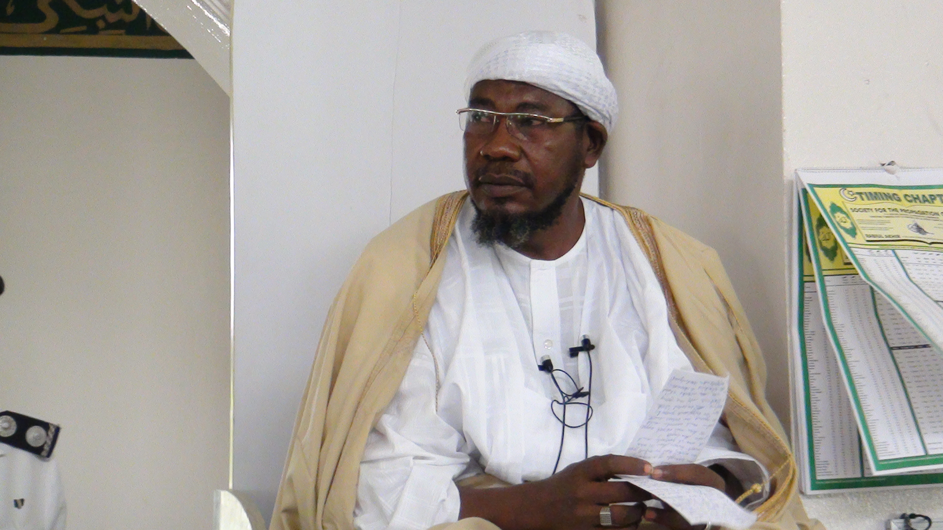 Sheik Muhammad Nuru Khalid Jos Chief Imam Apo legislative quarters jumu'at mosque Abuja Nigeria